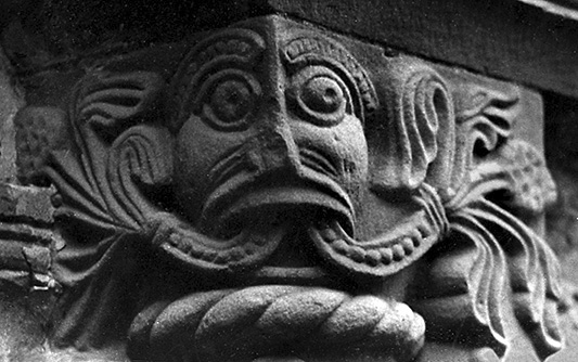 A scan from a print of a 35mm photograph which I took at the Romanesque church of Saint Mary and Saint David in Kilpeck, Herefordshire, England in the mid 1970s. It shows a carving, on a capital of the south doorway, of a "Green Man", made during the late Norman period (mid 12th century AD) by an unknown sculptor of the "Herefordshire School". This scan is in the Public Domain (however, I retain ownership and copyright of the original print (and negative) and any higher-resolution scans derived from them). If you use the photo outside Wikipedia, a photographer's credit (Simon Garbutt) would be appreciated.